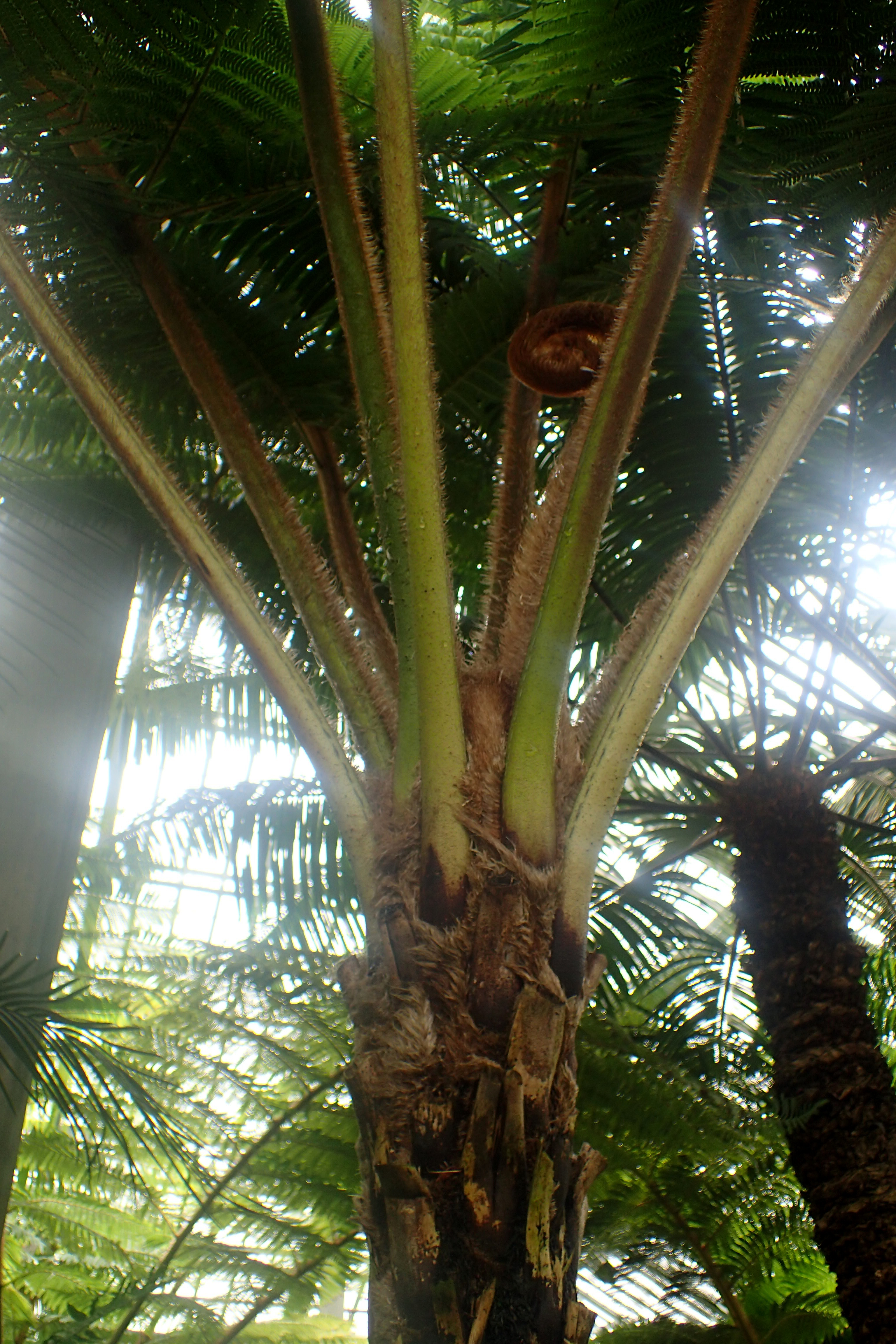 Cyathea princeps (syn. Sphaeropteris horrida) at Garfield Park Conservatory, Illinois